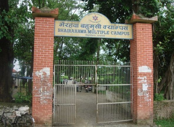 Entrance Gate